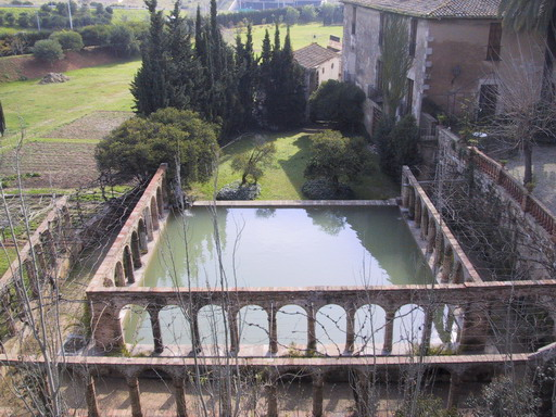 Esplugues de Llobregat, Baix Llobregat, Catalonia